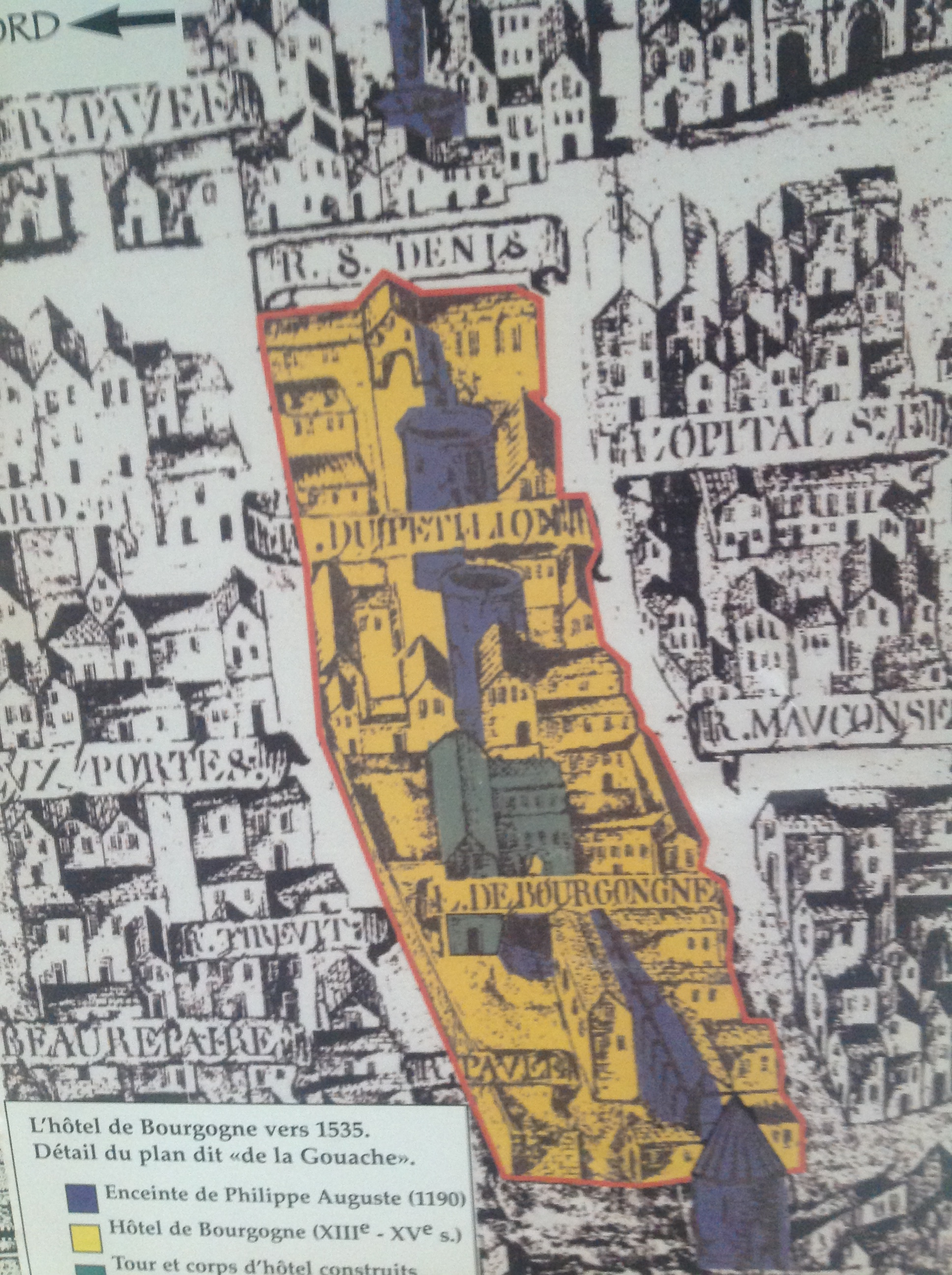 The hotel de Bourgogne and the wall of Philippe Auguste in about 1535 on the Map called "de la Gouache